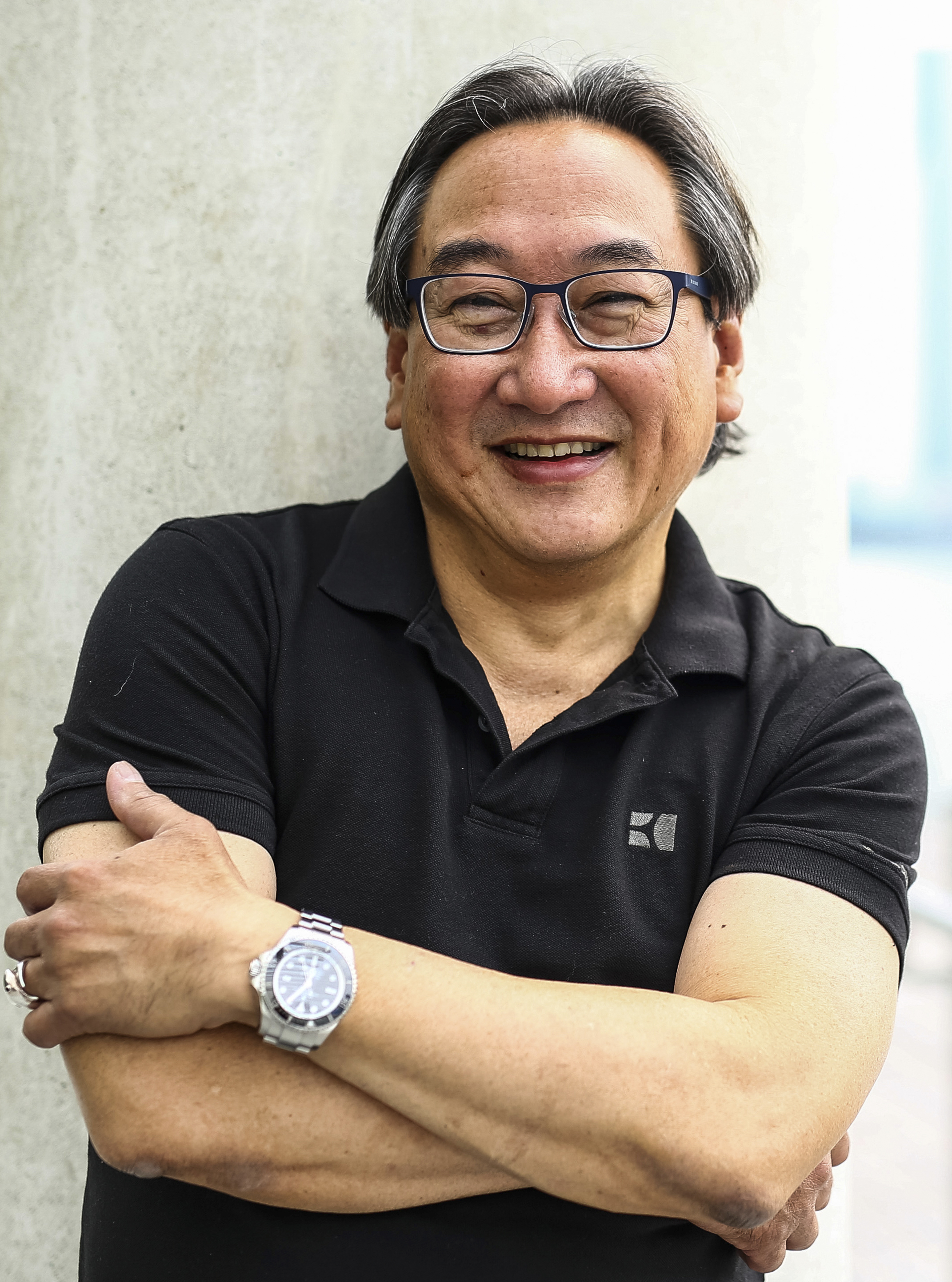 Photo of Michael AW in 2015